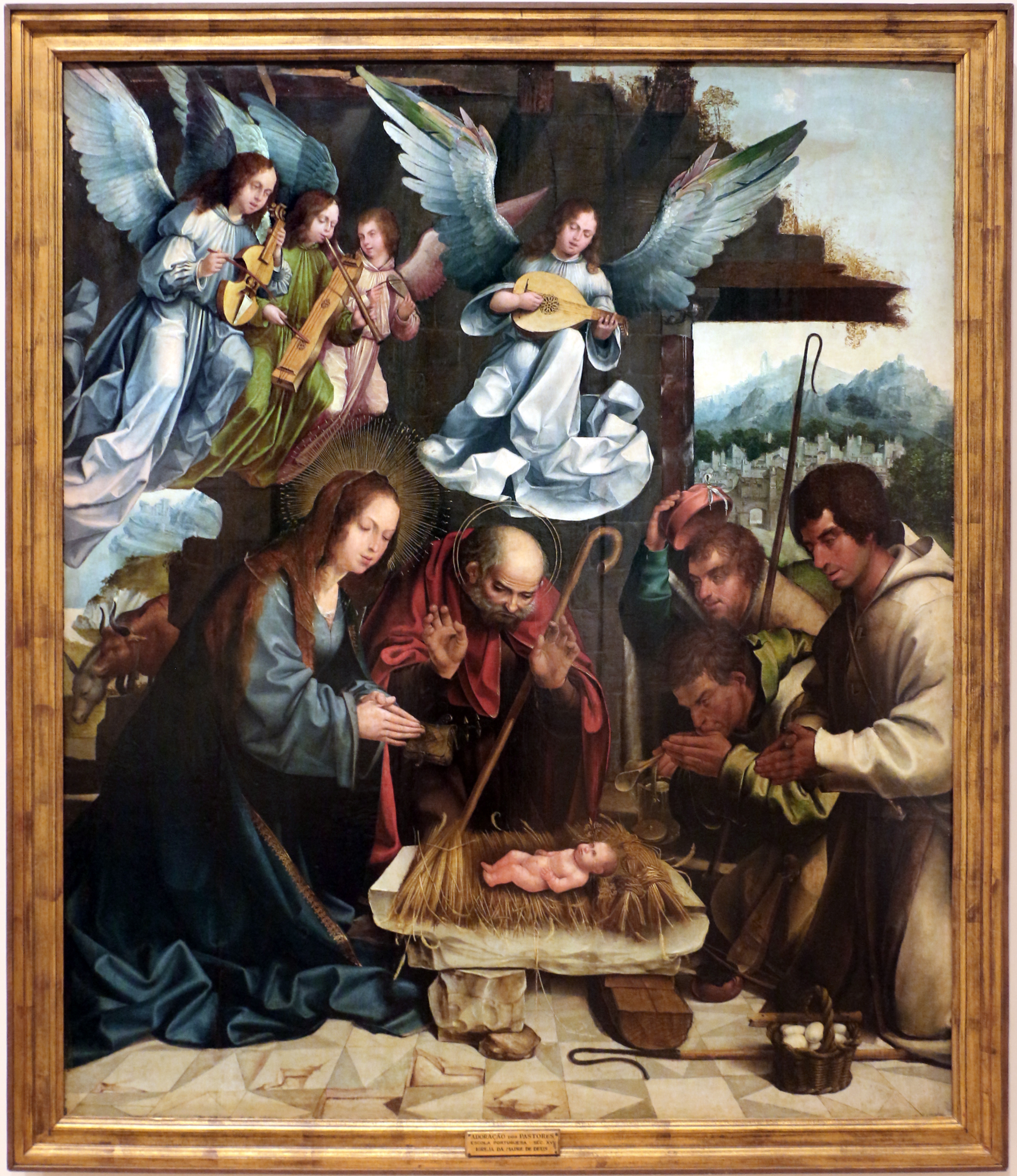 Políptico do Convento da Madre de Deus